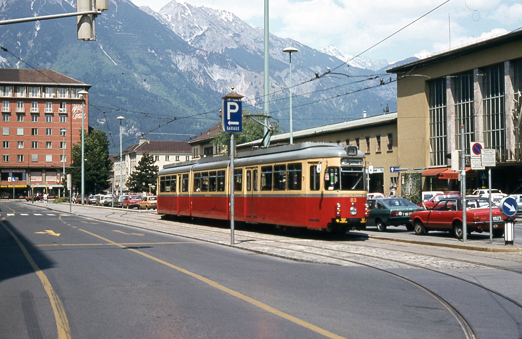 Stubaitalbahn car 83 at the Hauptbahnhof (main station) in Innsbruck.